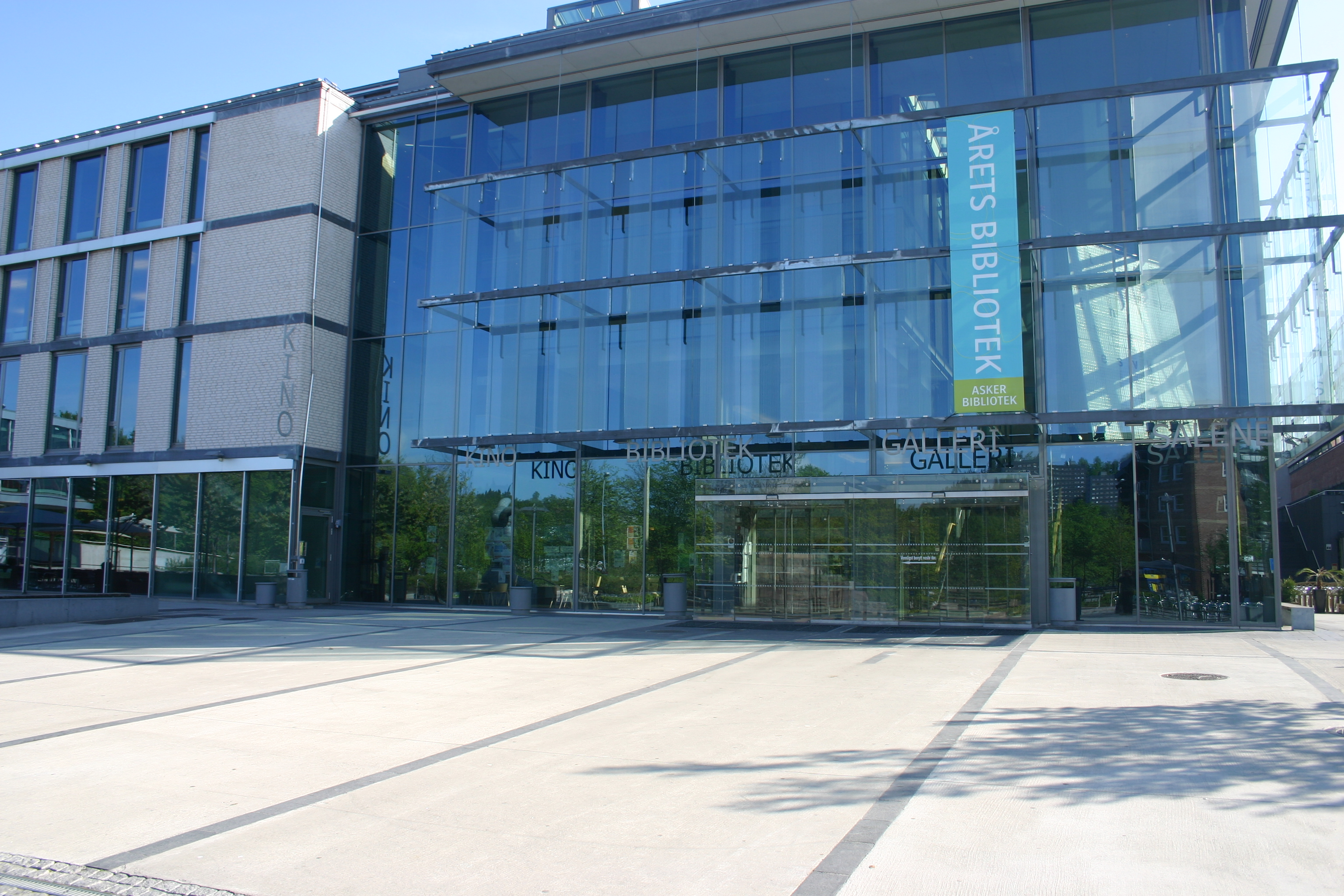 Asker kulturhus, Asker, Norway